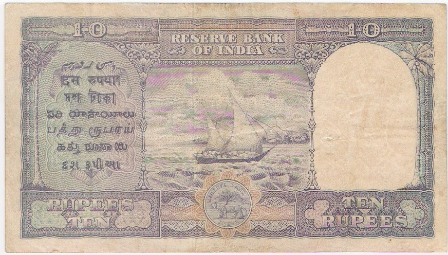 Reverse of British India 10 Rupees note. This side shows a sailing Pattamar and inscribes "Ten Rupees" in seven different languages. The front side is with King George VI front facing portrait signed by C D Deshmukh. Note printed between 01-07-1937 to 17-02-1943, i.e. during the RBI Governor Sir James Taylor's tenure.